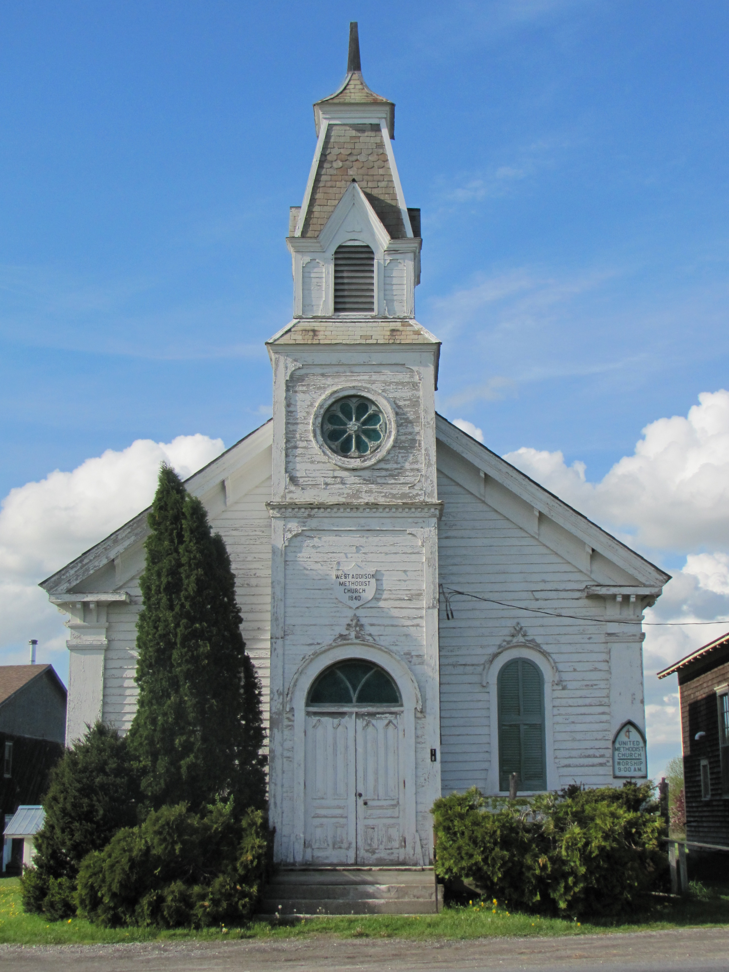 The West Addison Methodist Church is located on Church Street in Addison, Vermont just off of VT Route 17.